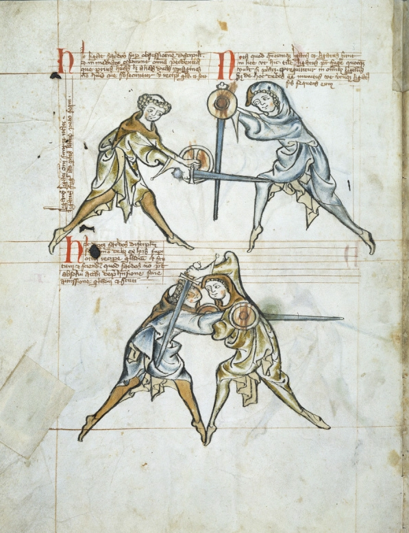 Fol. 4v of Royal Armouries Ms. I.33, a medieval treatise on fighting with sword and small shield (buckler), presumably made shortly before or after 1300 in Franconia. Facsimile by The Board of Trustees of the Armouries Royal Armouries Museum, Leeds. Original caption of facsimile image: "Manuscript illustration of two men fencing with sword and buckler. From the 'Tower Fechtbuch'. German, late 13th century"